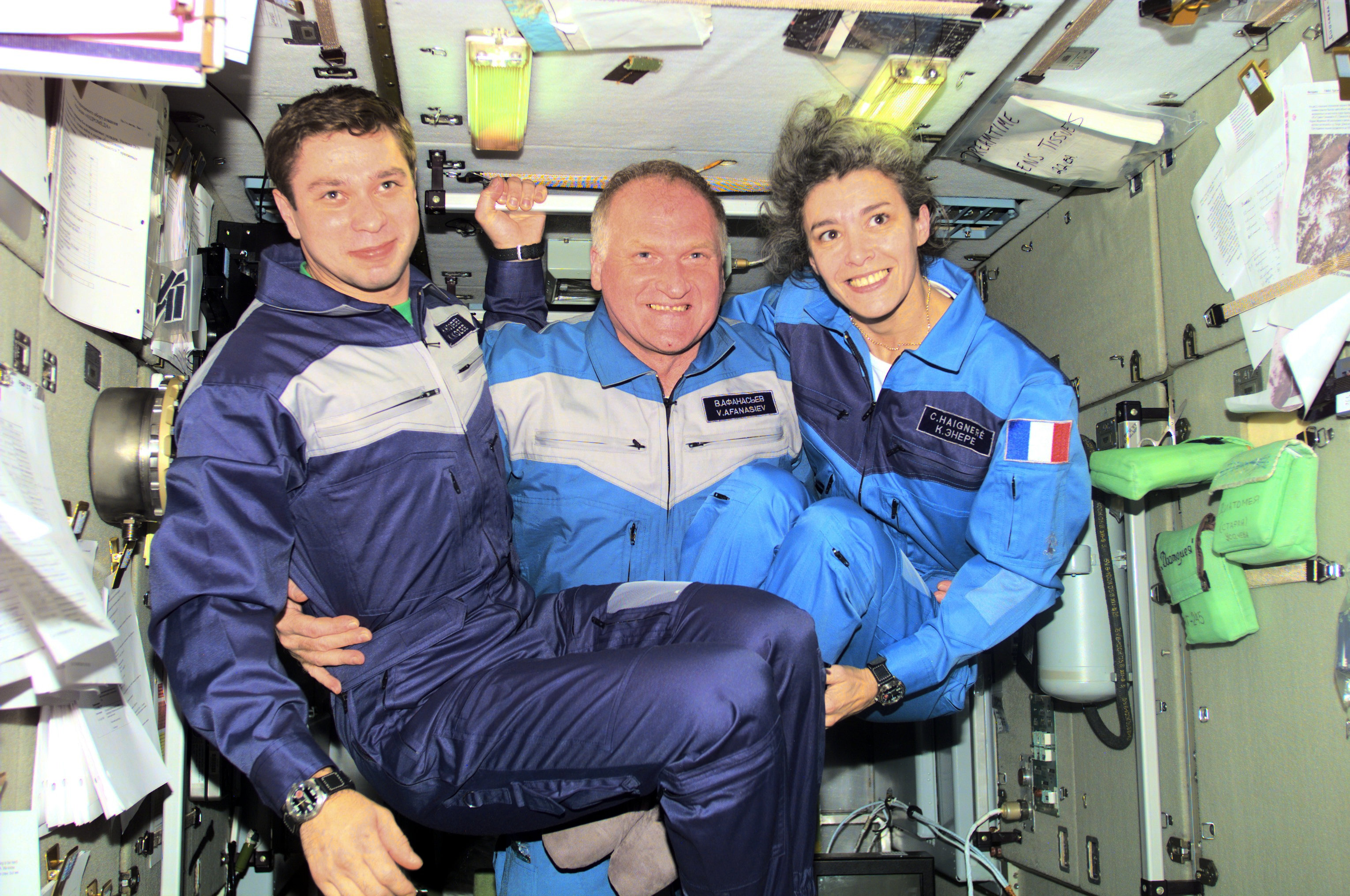 The Soyuz Taxi crewmembers assemble for a group photo in the Zvezda Service Module on the International Space Station (ISS). From the left are Flight Engineer Konstantin Kozeev, Commander Victor Afanasyev, and French Flight Engineer Claudie Haignere. Afanasyev and Kozeev represent Rosaviakosmos, and Haignere represents ESA, carrying out a flight program for CNES, the French Space Agency, under a commercial contract with the Russian Aviation and Space Agency. This image was taken with a digital still camera.